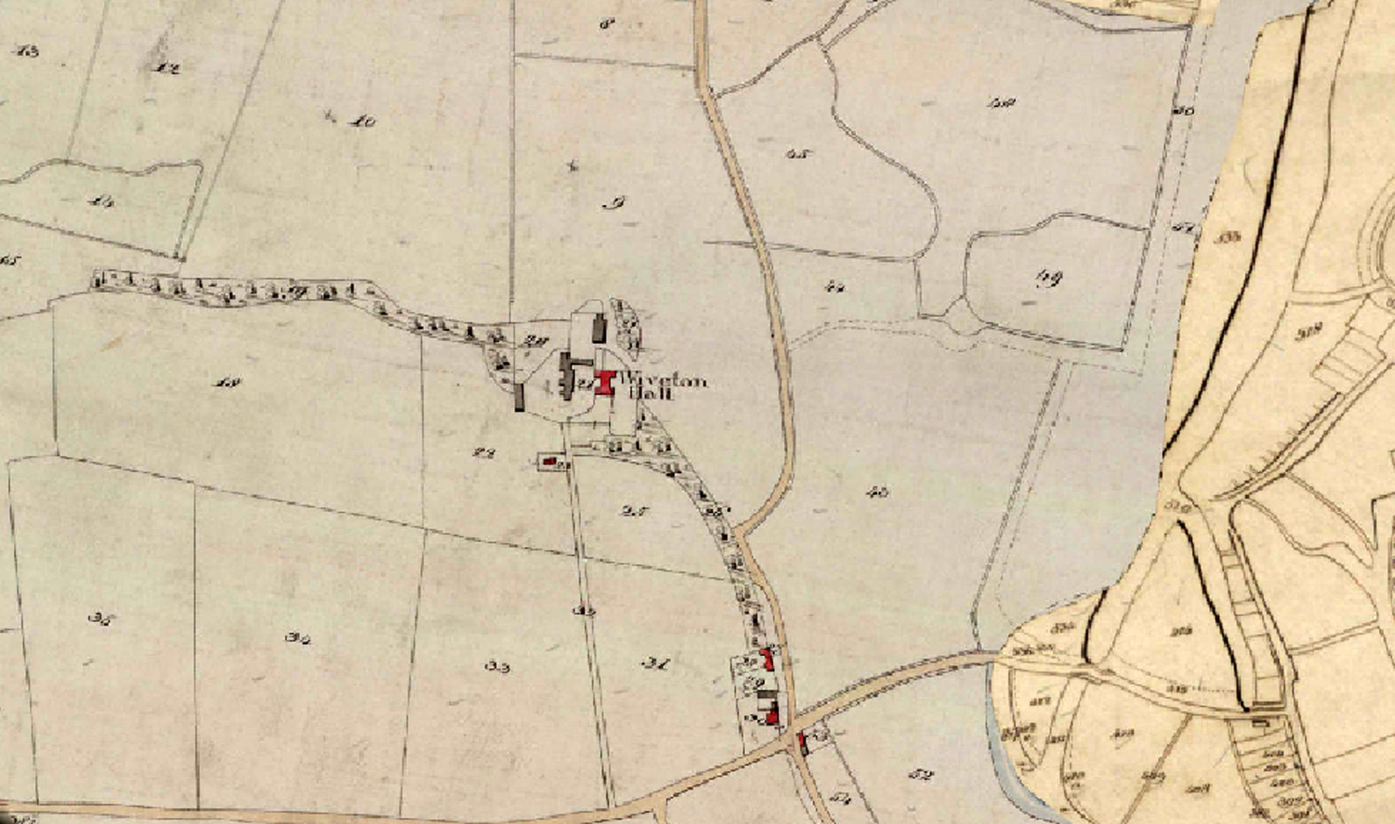 Tithe map of Wiveton Hall, Norfolk, 1843